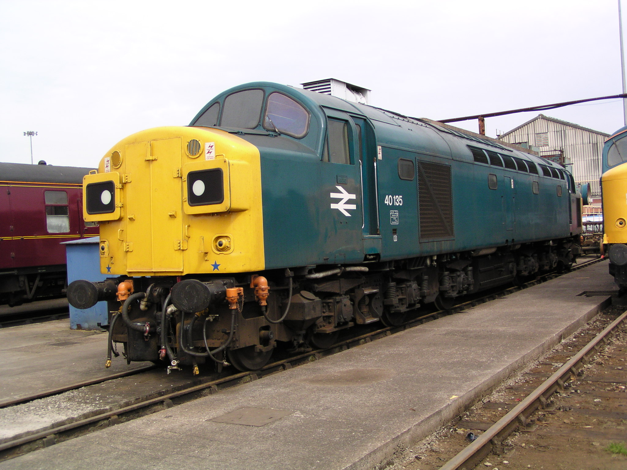 BR Class 40, no. 40135 at Crewe Works on 1st June 2003.